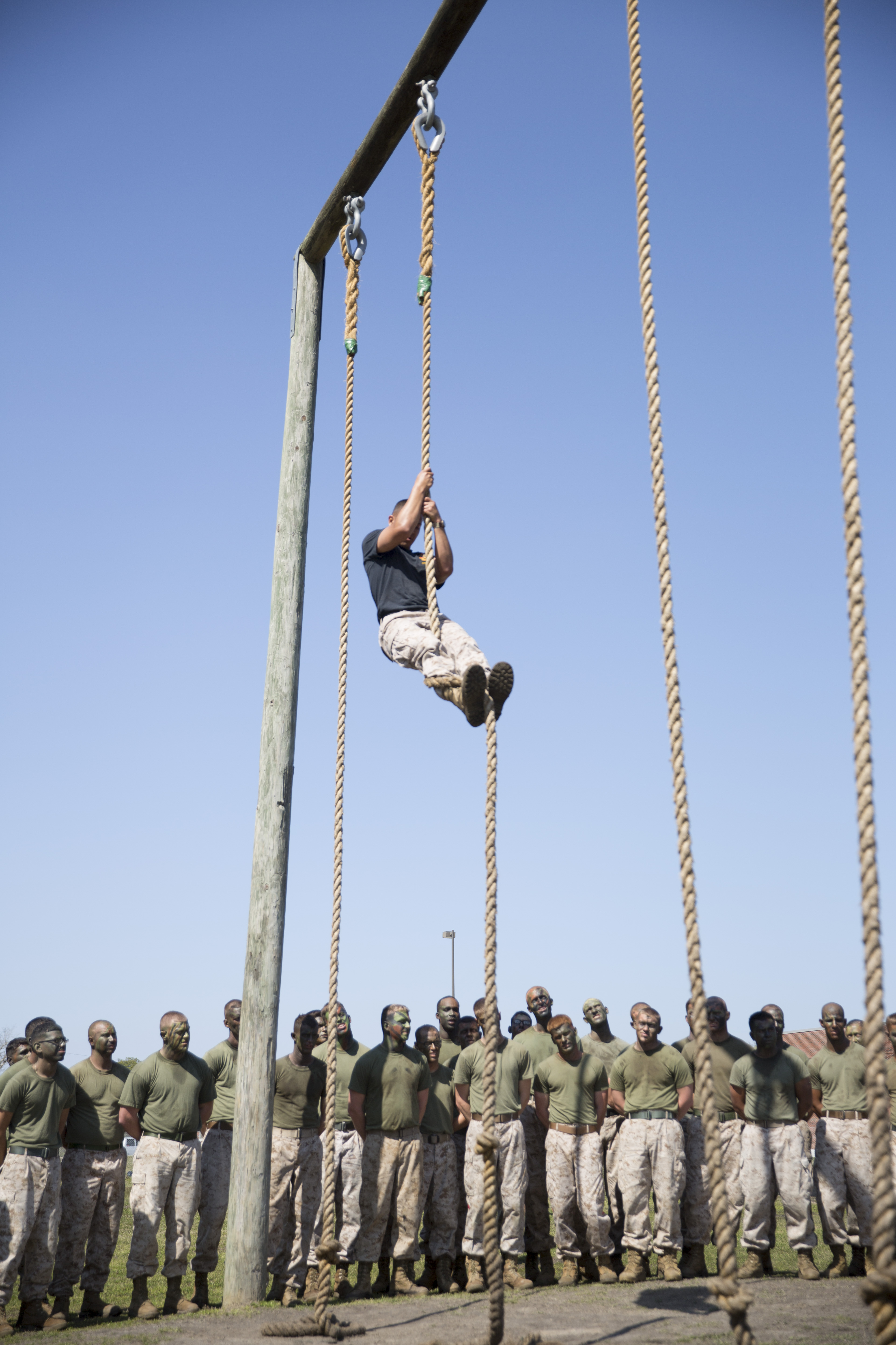 An instructor with 2nd Marine Logistics Group’s Corporal’s Course demonstrates rope climbing techniques at an obstacle course at Camp Lejeune, N.C., March 20, 2014. The Marines ran the obstacle course as part of their daily fitness regimen at the course.